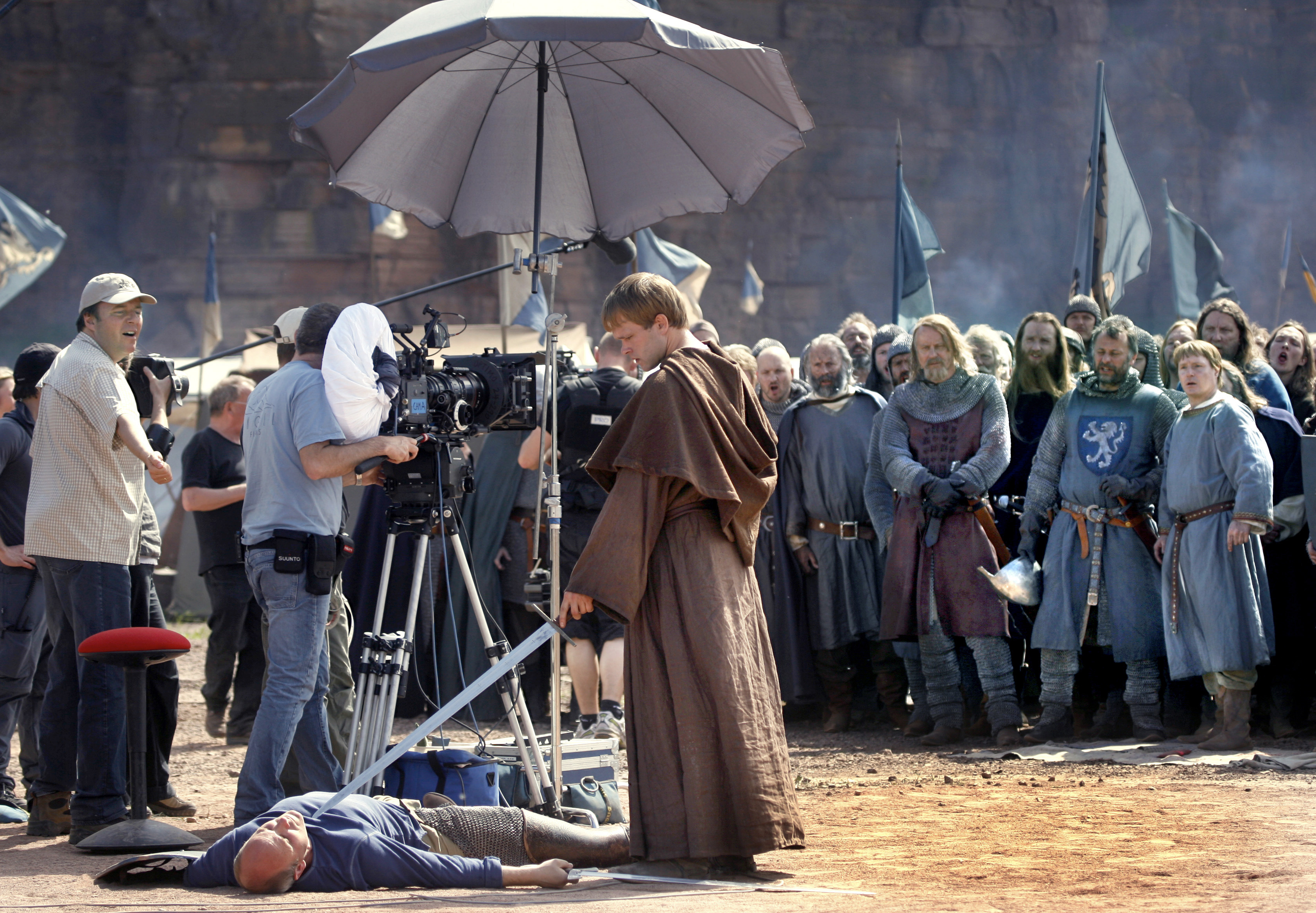 The historical movie about the knight Arn is recorded at a limestone quarell in Kinnekulle that together with the archipelage in Mariestad is selected a bisophere area. Photo by: Jan Fleischmann This is an image of the Biosphere Reserve or a Geopark: Lake Vänern Archipelago